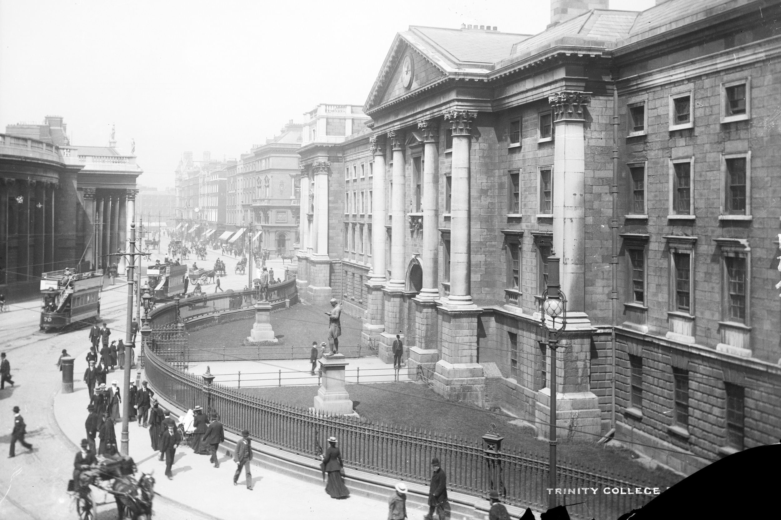 Very bustling scene at College Green in Dublin (at 13:16 o' the clock?). There are surely clues in this streetscape that can help us narrow down the date... This photo was taken probably by Robert French, chief photographer of William Lawrence Photographic Studios of Dublin. You can compare this view of Trinity College with its companion photo taken approximately 90 years later as part of the Lawrence Photographic Project 1990/1991, where one thousand photographs from the Lawrence Collection in the National Library of Ireland were replicated a hundred years later by a team of volunteer photographers, thereby creating a record of the changing face of the selected locations all over Ireland. For further information on the Lawrence Photographic Project, read all about it on our NLI Blog. Date: Circa 1900 (but willing to be persuaded otherwise) NLI Ref.: L_CAB_00734